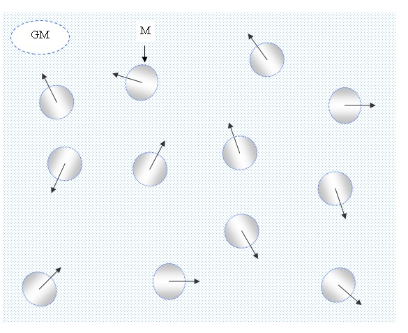 Molecular power 42. Model of ideal gas